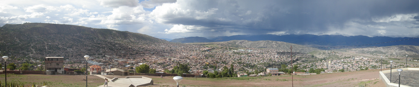 Photos of Ayacucho taken by E. Zambrano